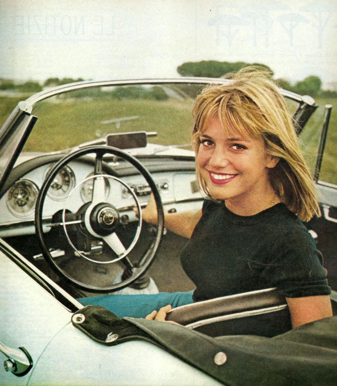 French-Italian actress and singer Catherine Spaak in 1962, inside an Alfa Romeo Giulietta Spider.